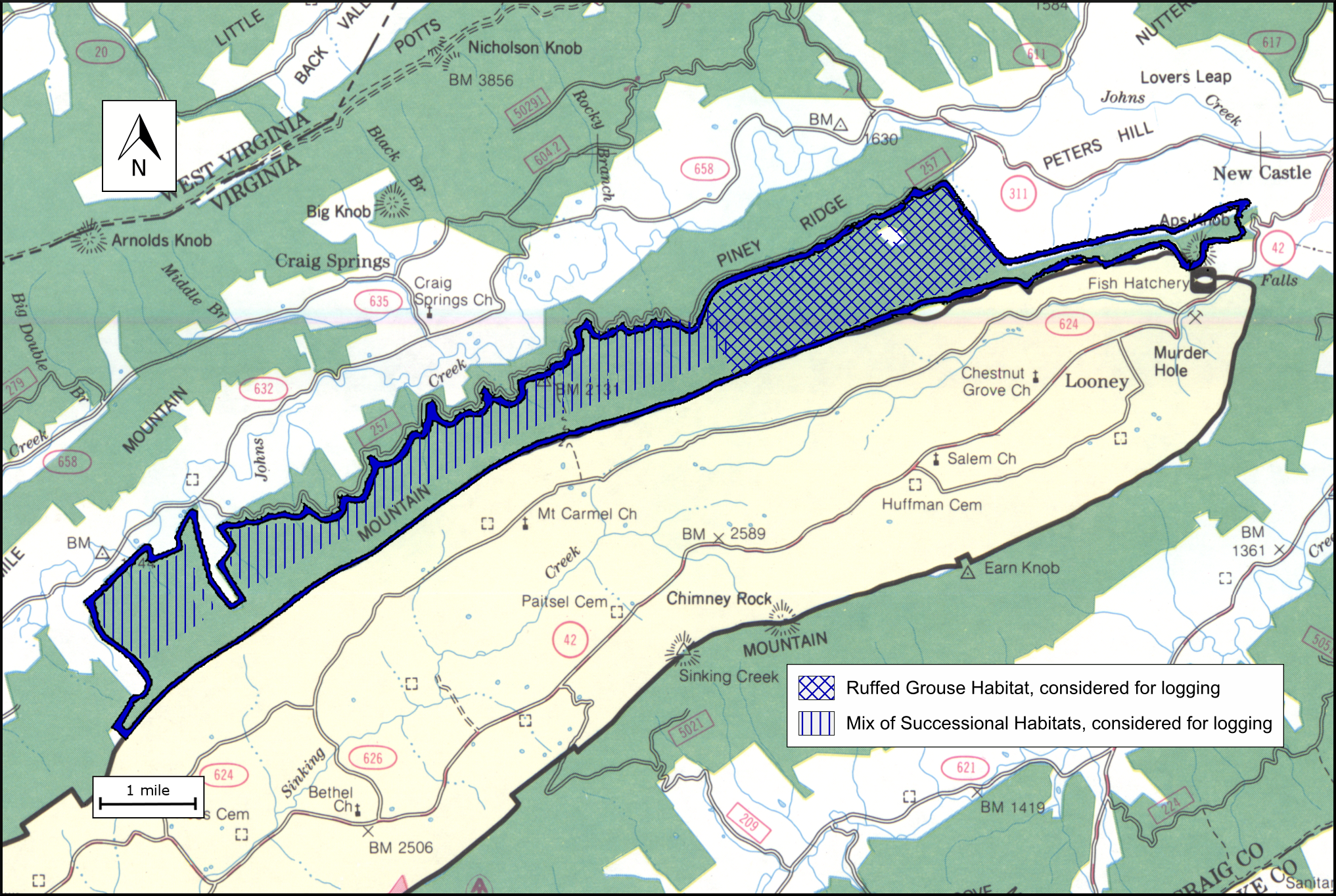 Boundary of the Johns Creek Mountain wildarea as identified by the Wilderness Society